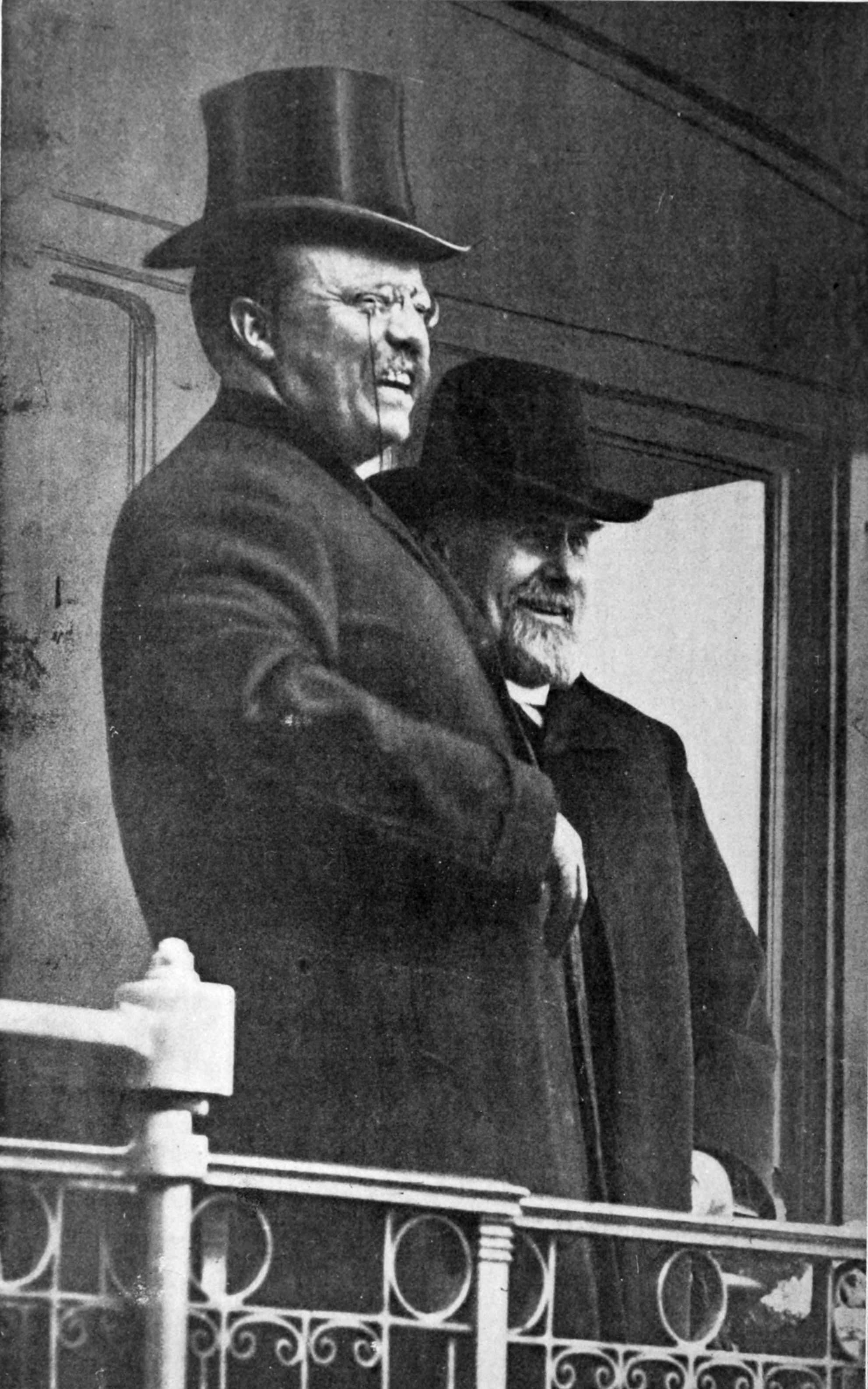 Theodore Roosevelt and Binger Hermann on a train arriving in Portland, Oregon. According to Stephen A. D. Puter, Hermann arranged the photograph without Roosevelt's knowledge, in order to stage a campaign photograph conveying the false notion that he was on good terms with Roosevelt, who was popular in his district.